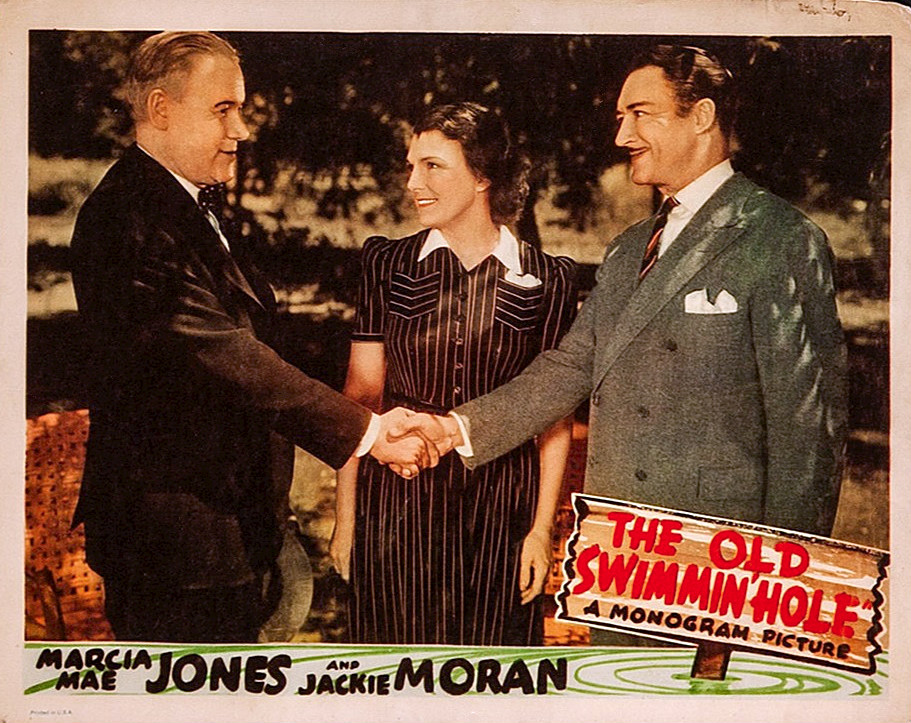 Lobby card for the 1940 film The Old Swimmin' Hole.